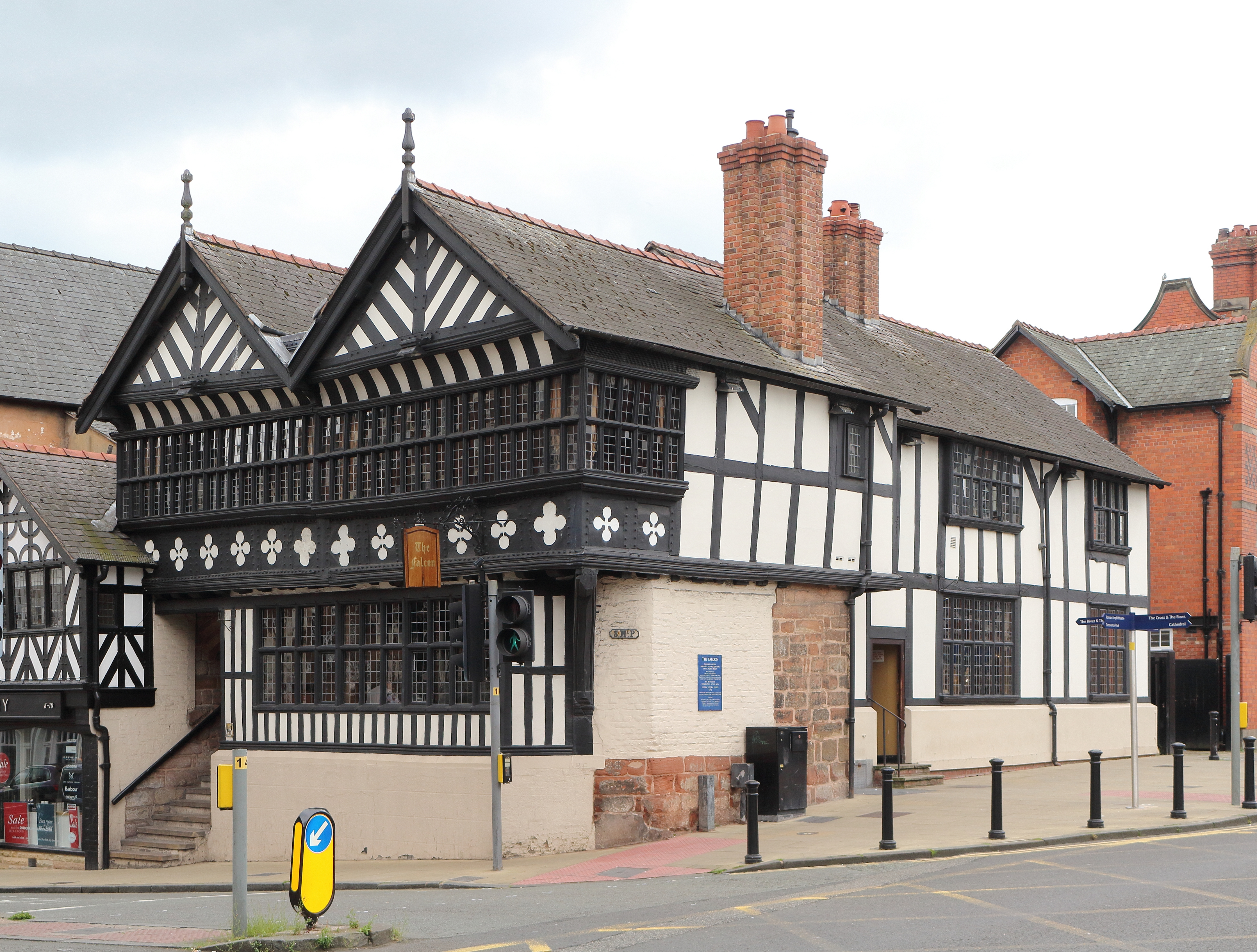 Corner shot of the Falcon, Chester, with Lower Bridge Street (to left) and Grosvenor Street (to right).